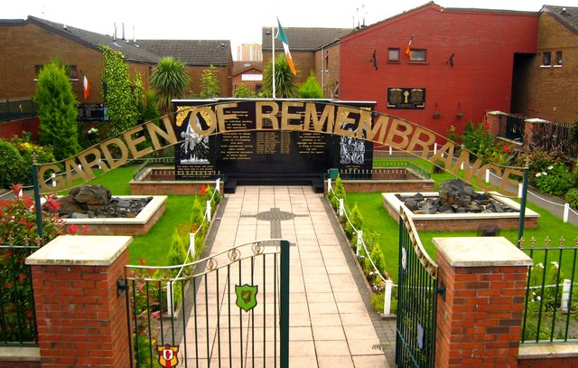 Garden of Remembrance, Falls Road The garden of remembrance is dedicated both to Irish Republican Volunteers and civilians from the Falls area who lost their lives.